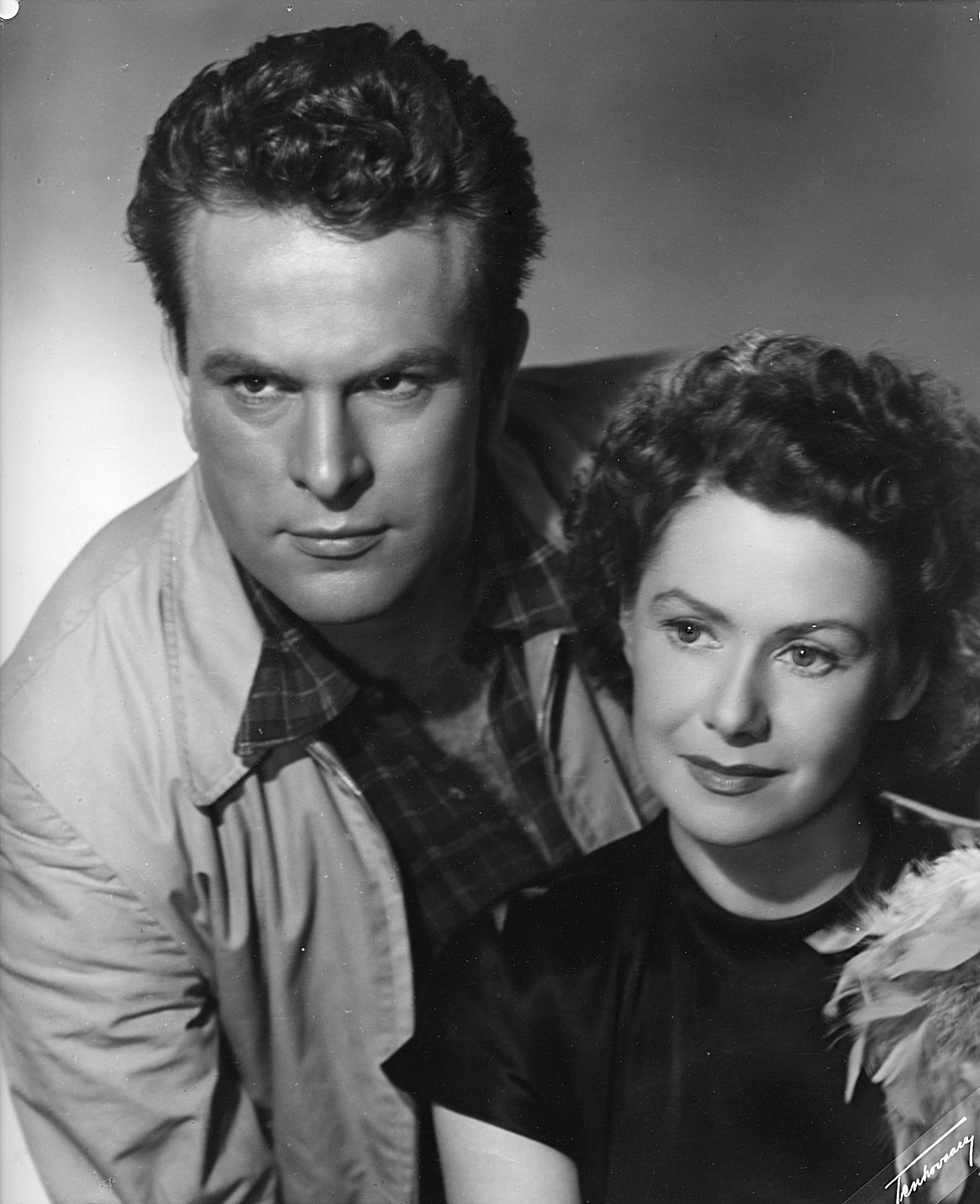 Publicity photograph of the Finnish actors William Markus (1917–1989) and Sonja Wigert, in connection with the film Neljä rakkautta.